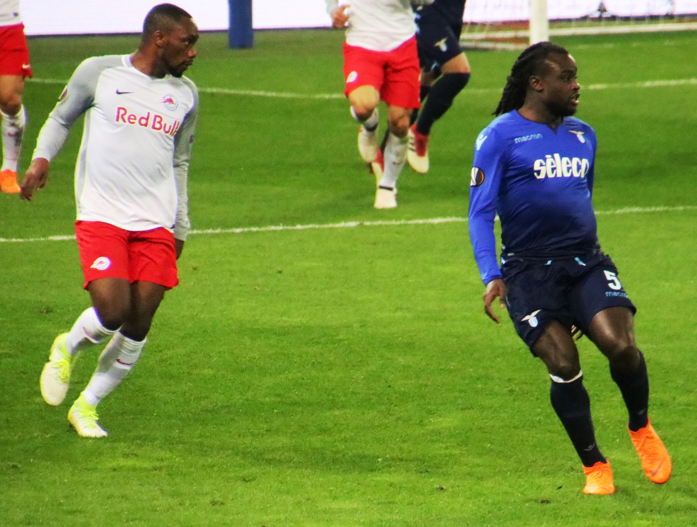 UEFA euro League Quarterfinal 2nd leg